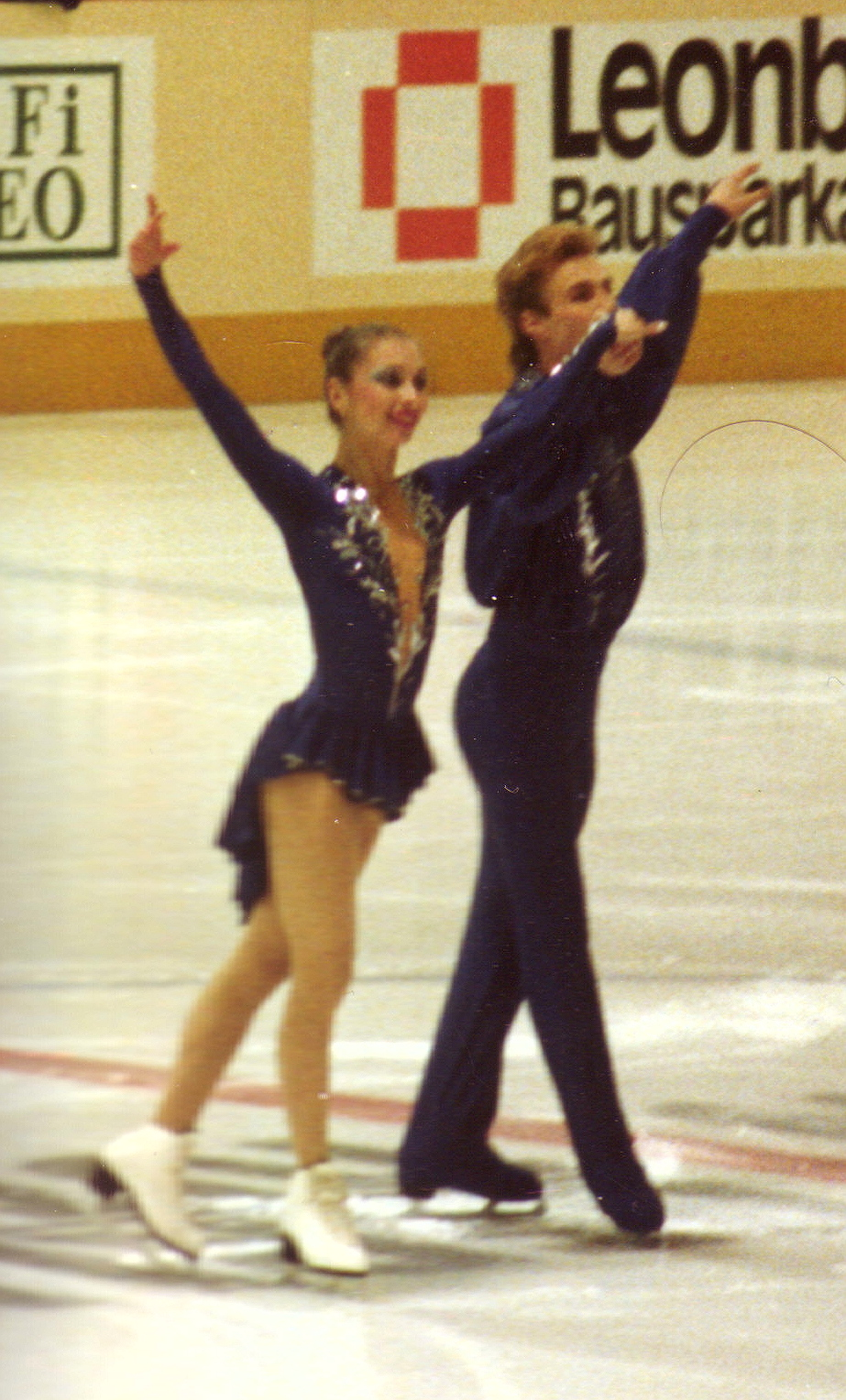 Maia Usova and Alexander Zhulin at the ISU-exhibition in West-Berlin in 1989